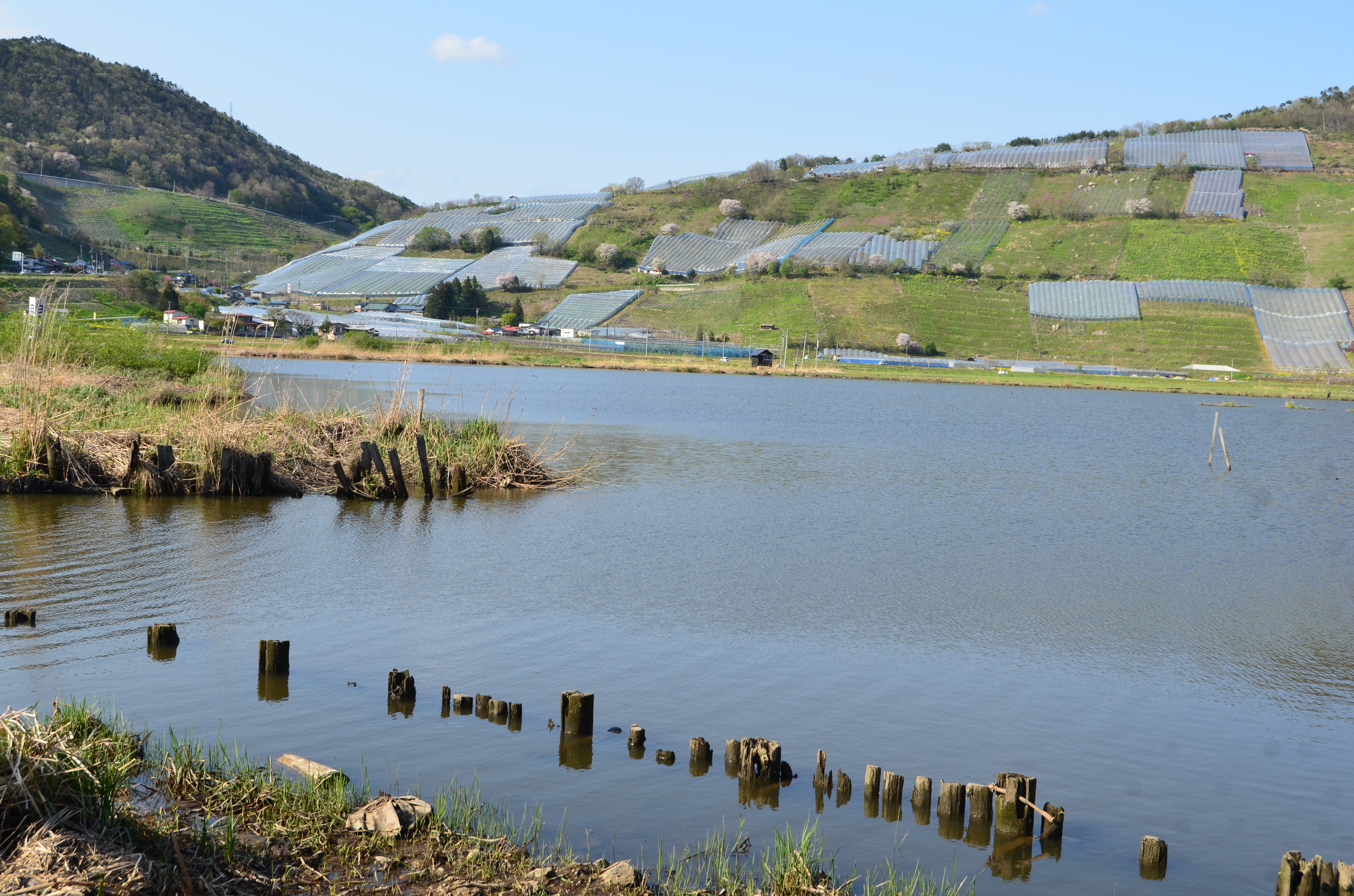 Considered the smallest lake in Japan. On the mountain in the background is a large vineyard.